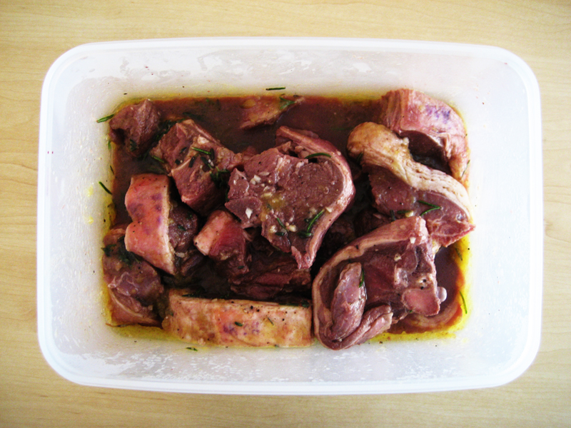 Lamb marinating in olive oil, garlic, rosemary, cabernet sauvignon, freshly squeezed orange juice and fynbos honey.